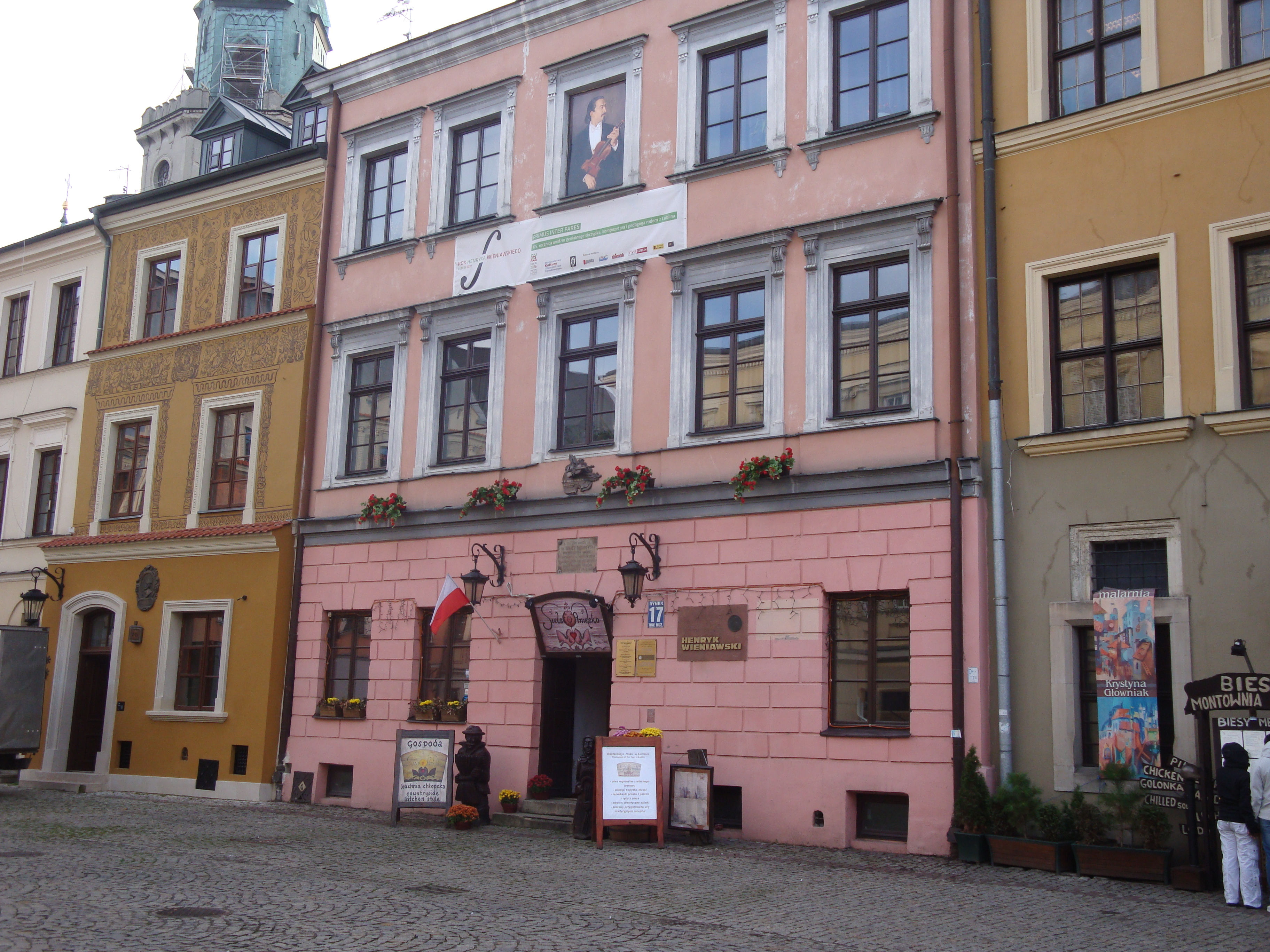 Tenement house at 17 Market Square (Rynek) in Lublin, Poland. In this building Henryk Wieniawski (composer, violinist) and Ignacy Baranowski (medicine proffesor) were born.